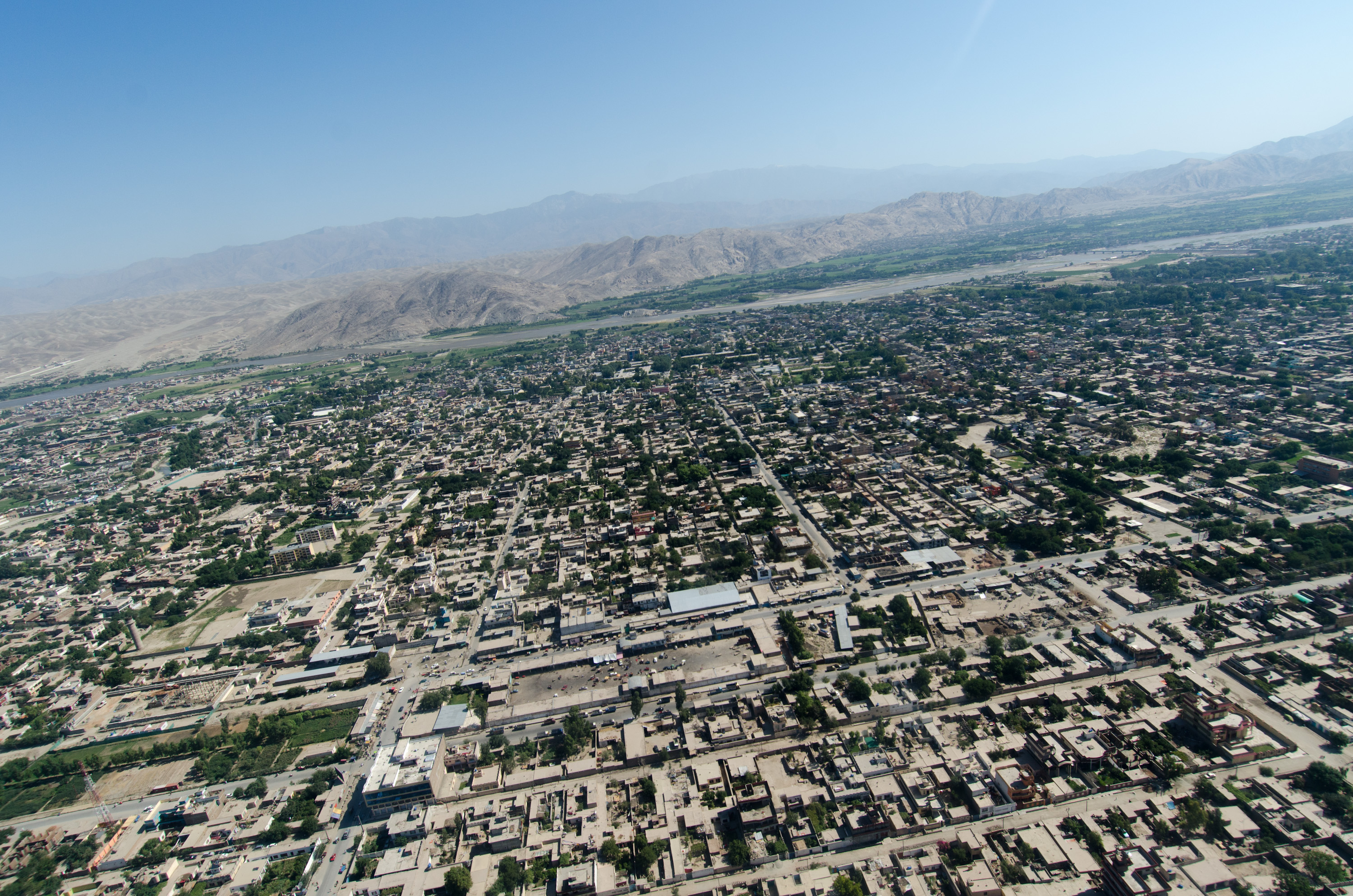 An aerial view of a section of the city of Jalalabad in Afghanistan.